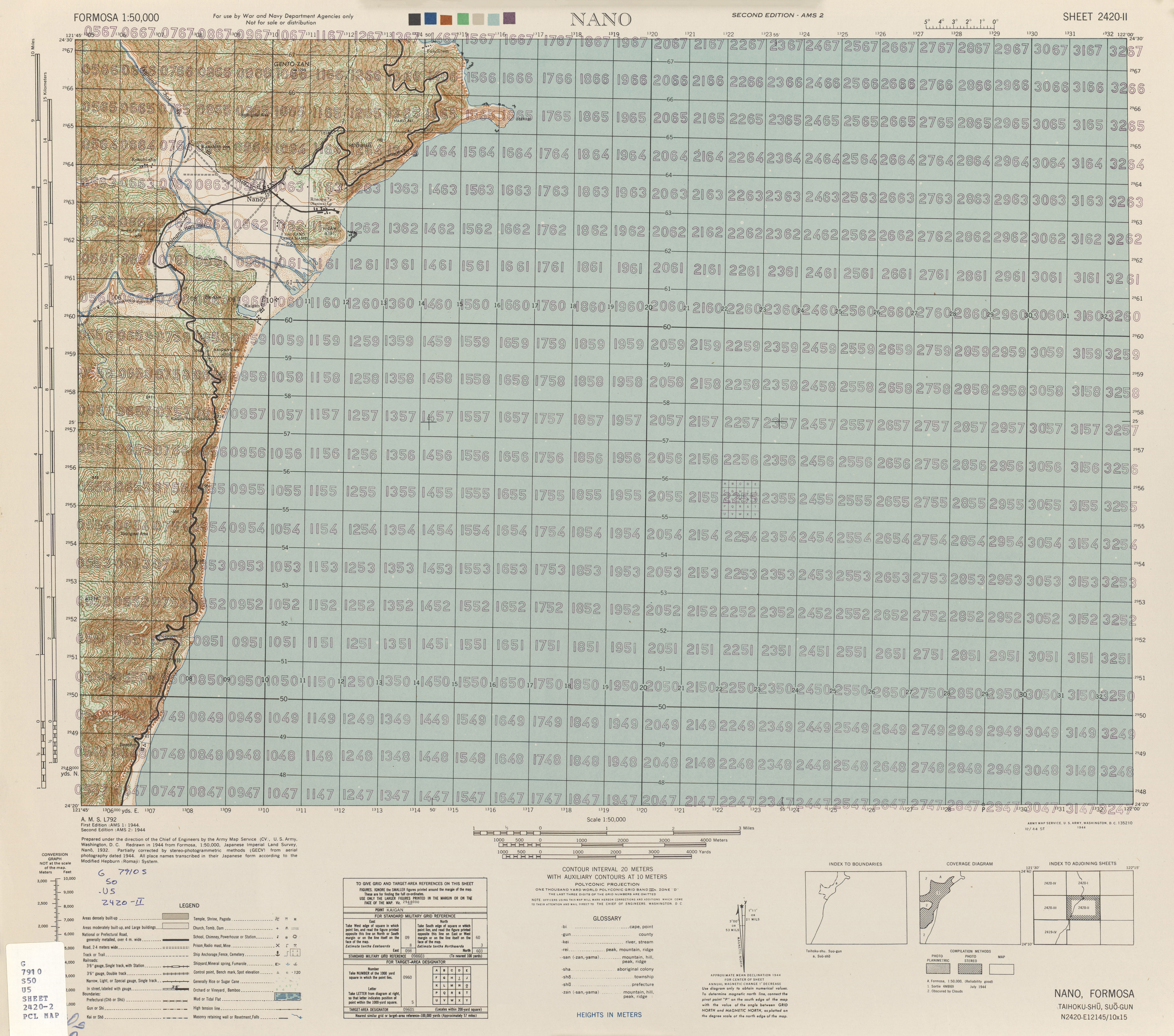 Map from Formosa (Taiwan) 1:50,000 AMS Series L792